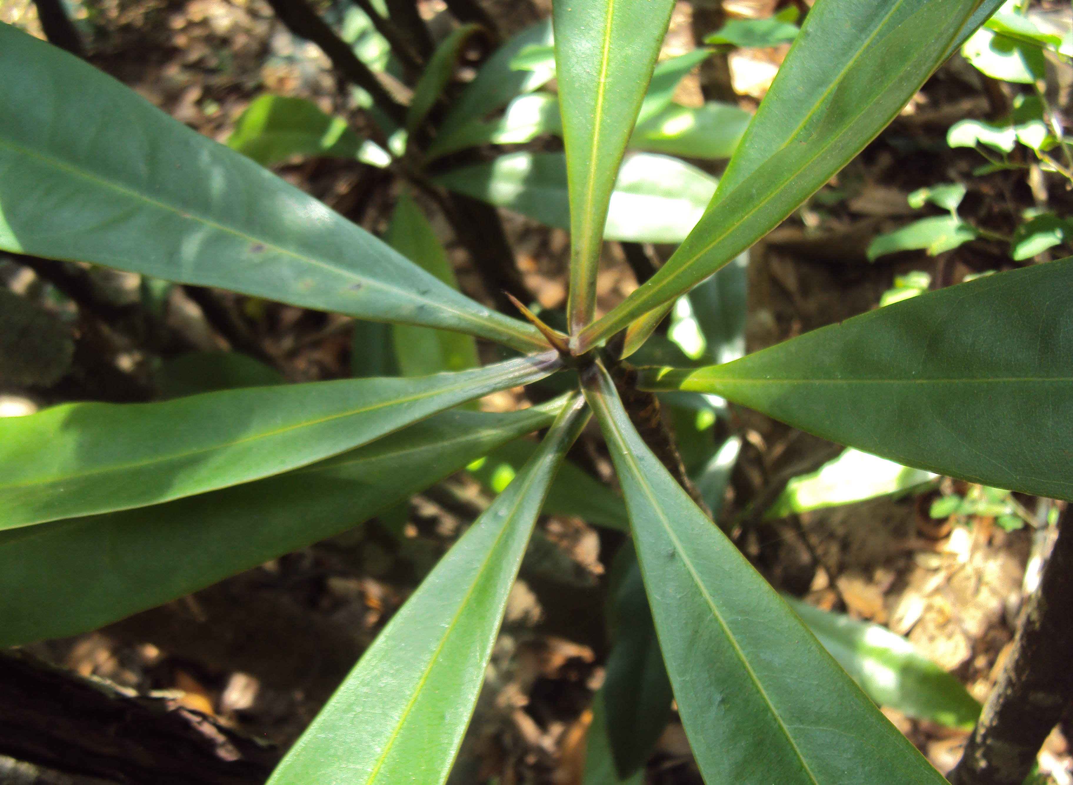 Ancistrocladus heyneanus